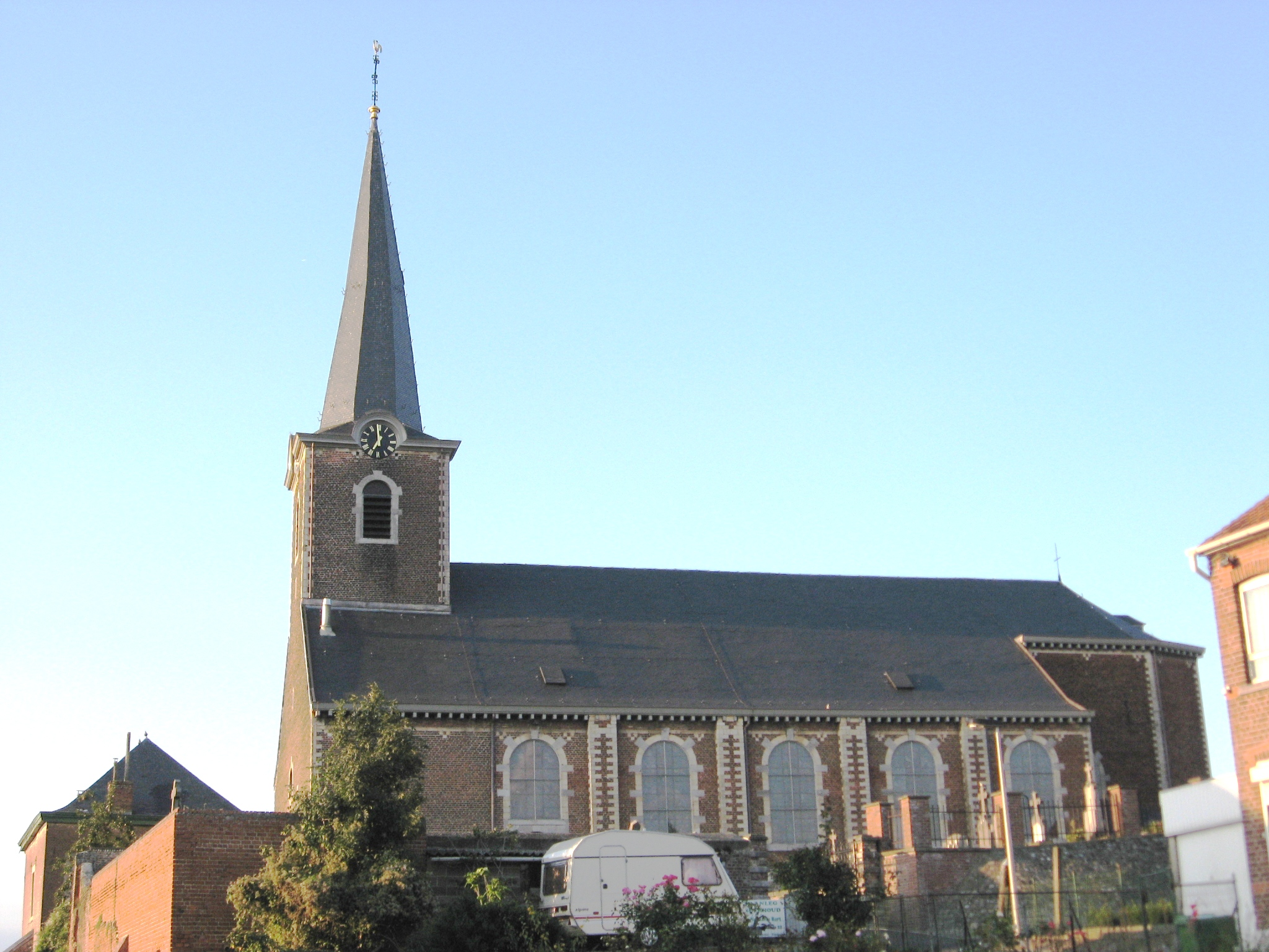 Church of Saint Medardus in Vreren, Tongeren, Limburg, Belgium